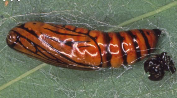 Josia sp. Location: Ecuador Comments: Note the net of silk strands surrounding the pupa. Reference: Miller JS. 2009. Generic revision of the Dioptinae (Lepidoptera: Noctuoidea: Notodontidae). Bulletin of the American Museum of Natural History 321, 1-971 + 48 plates. (Plate 39)